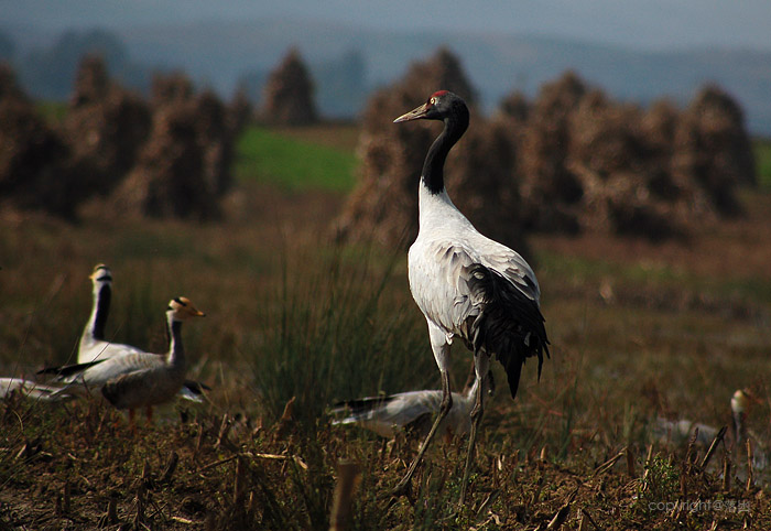 Anser indicus and Grus japonensis, at Cao Hai Nature Reserve, Weining, Guizhou, China